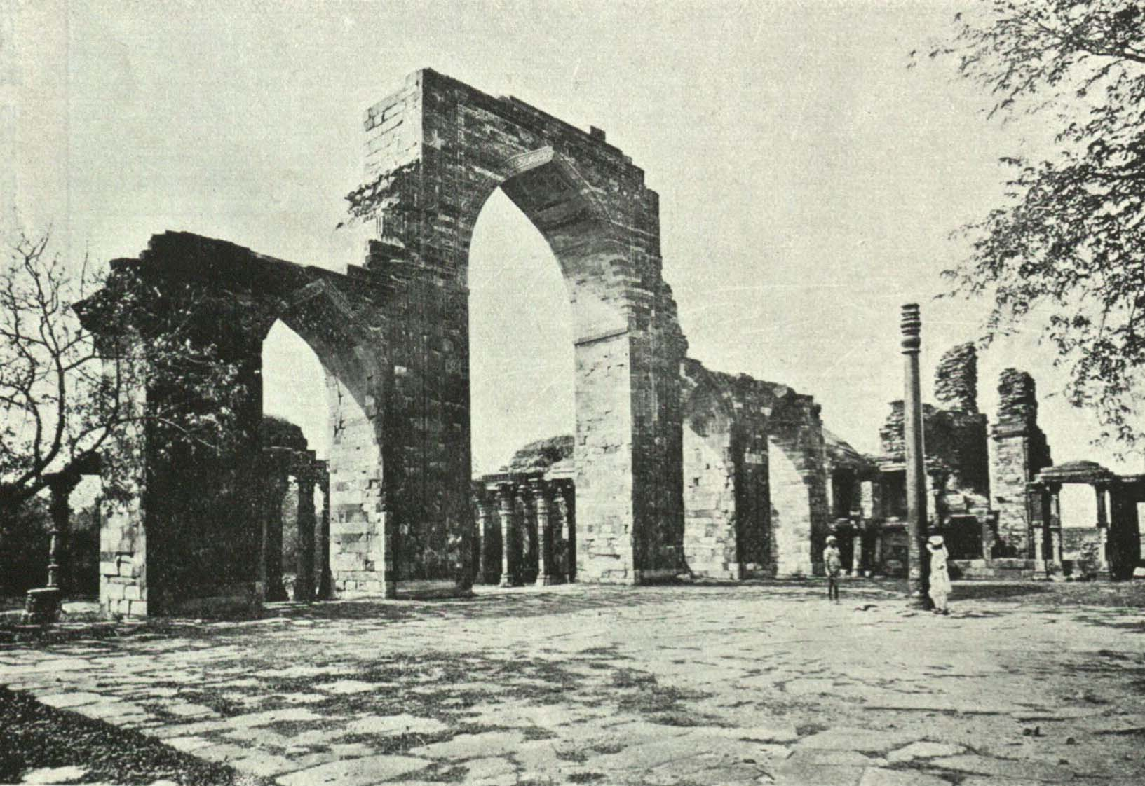 Tradition assigns the erection of the Pillar to Anang Pal, whose name it bears, with the date 1052 A.D.